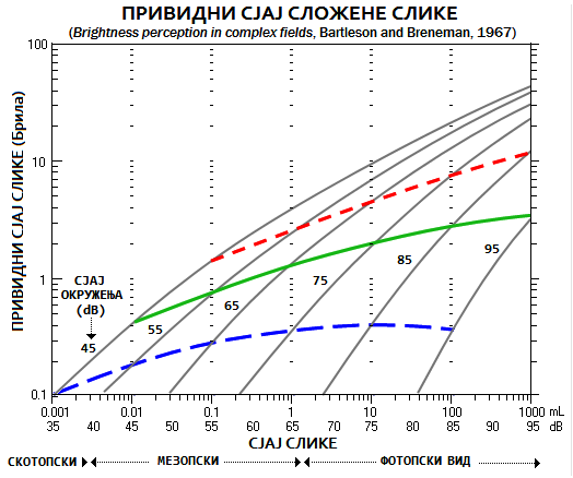 ПРИВИДАН СЈАЈ СЛОЖЕНЕ СЛИКЕ (ФОТОГРАФИЈЕ)